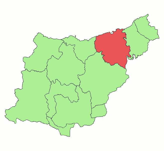 Donostialdea region in the province of Guipuscoa